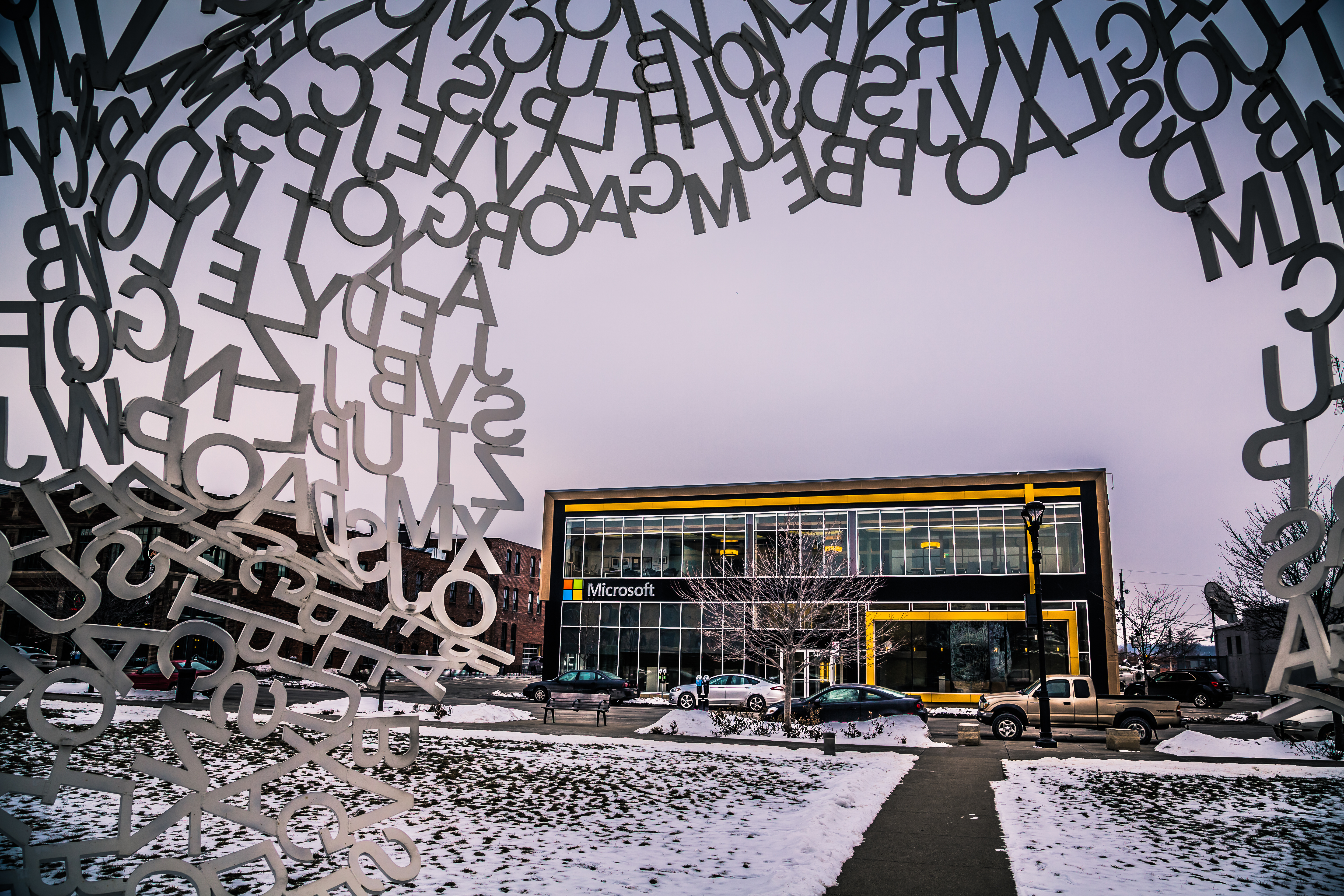 The Microsoft Store and Locust Street as seen from inside Jaume Plensa's "Nomade" at the Pappajohn Sculpture Park in Des Moines, Iowa.